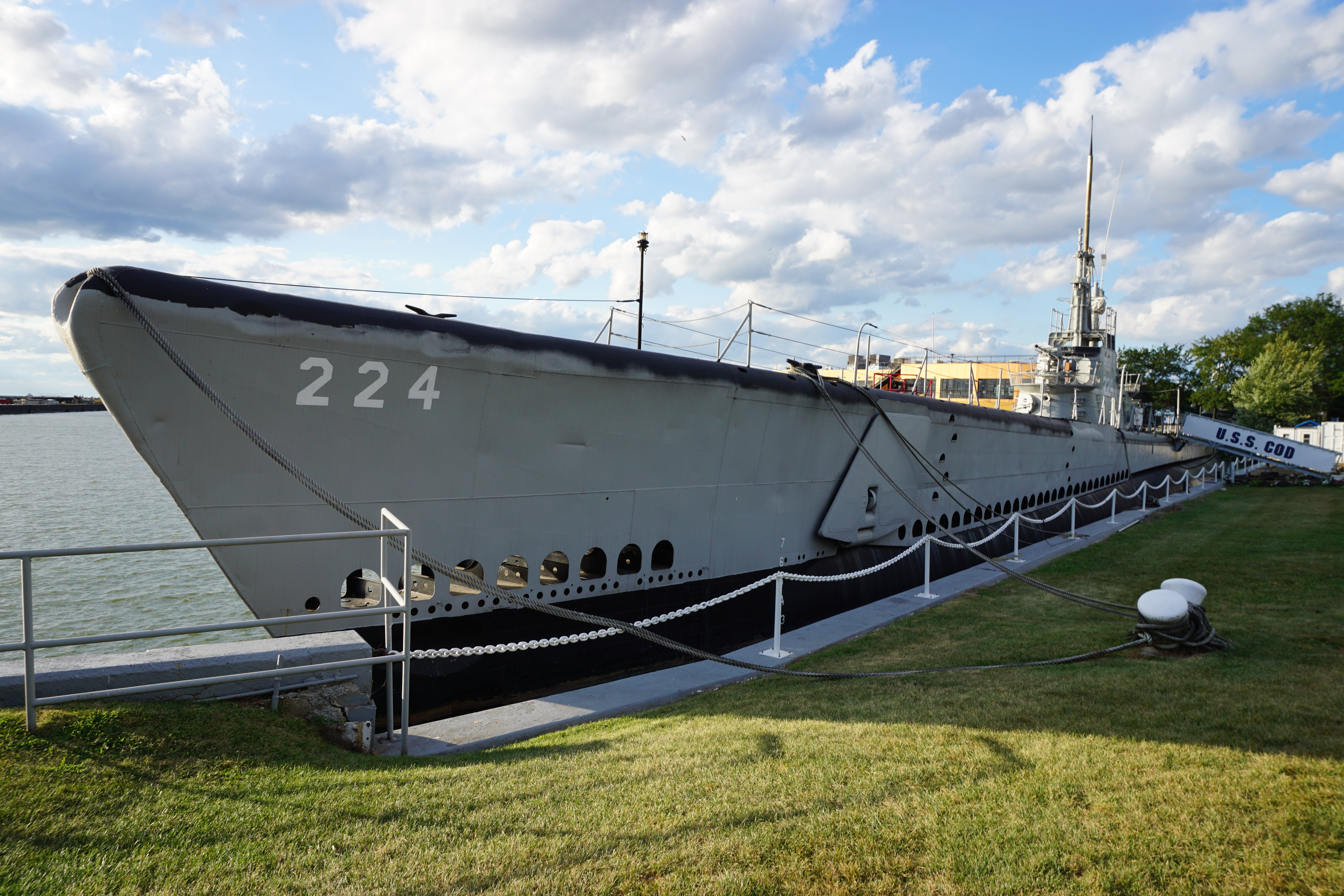 USS Cod in Cleveland, Ohio (United States).